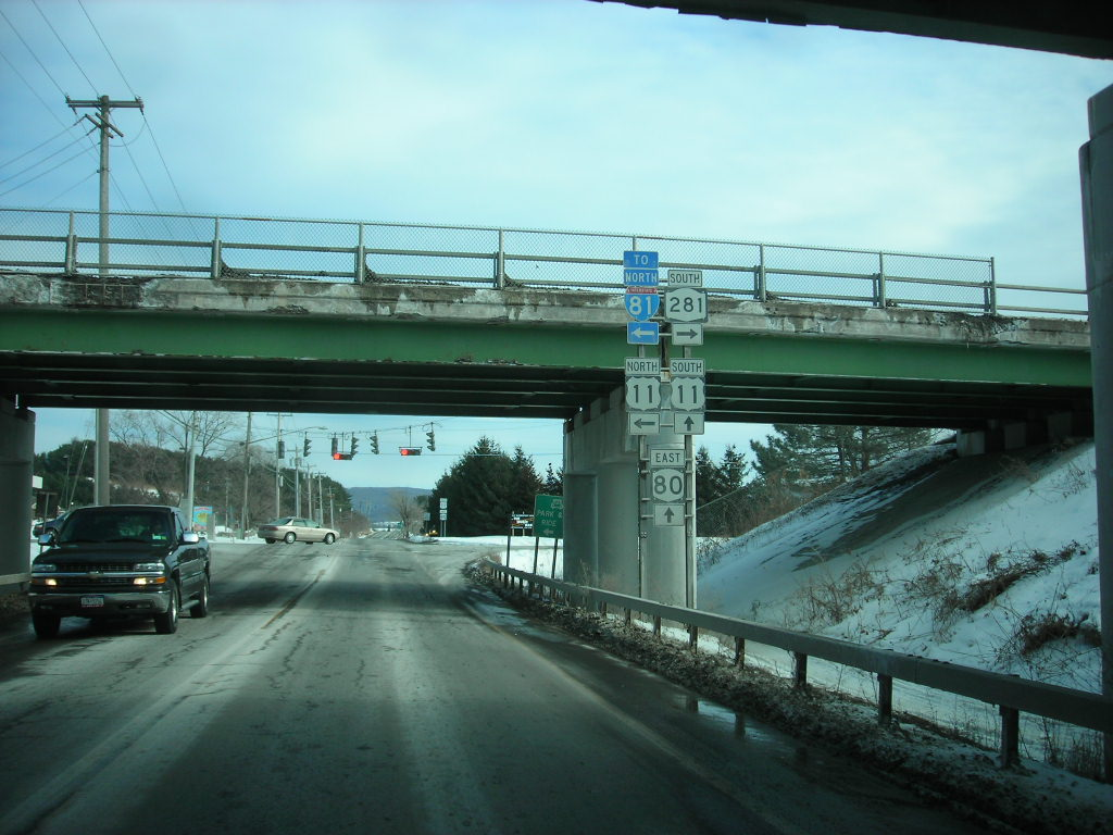 Junction of New York State Route 281, U.S. Route 11, Interstate 81, and New Yok State Route 80 in Cortland County.